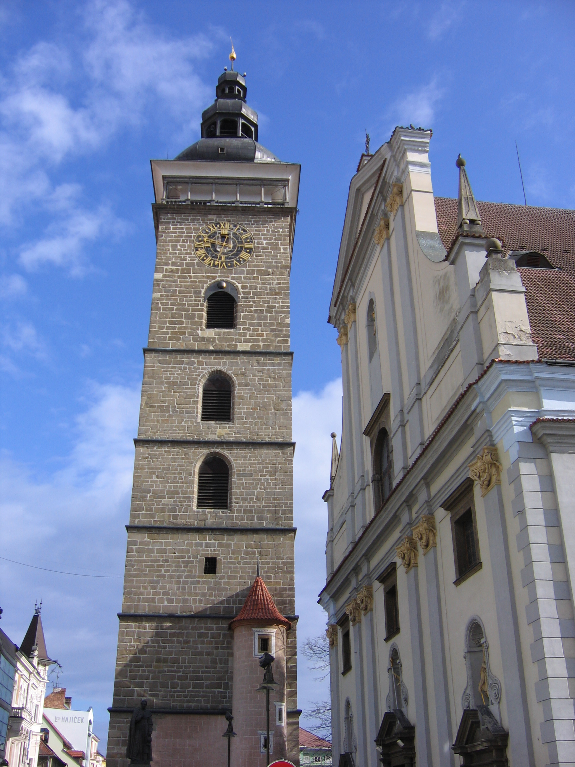 České Budějovice, Czech Republic: Black Tower with clock and bells, on right is cathedral of Sankt Nicolas. Before Black Tower is statue of Jan Valerián Jirsík, 4th bishop of České Budějovice